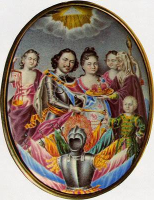 Allegory of the Order of succession Конклюзия на престолонаследие Г. С. Мусикийский. Миниатюра на эмали. 1717. Эрмитаж Изображены Петр I, Екатерина, справа — их сын царевич Петр Петрович (1715–1719), на которого Петр указывает скипетром — знаком императорской власти, что символизирует назначение царевича наследником престола вместо старшего сына от первой жены Петра, царицы Евдокии Лопухиной, царевича Алексея (1690–1718). Миниатюра была выполнена по заказу Меншикова еще до официального объявления Петра Петровича наследником (1718). Женская фигура с зеркалом справа — аллегория истины; слева, с весами — аллегория правосудия. Медь. Эмаль. 10,8X8,2. РР-3824 "Конклюзия на престолонаследие", как и портреты Екатерины I, Анны Ивановны и А. Д. Меншикова из собрания Эрмитажа, приписывается художнику на основании стилистического анализа и архивных документов